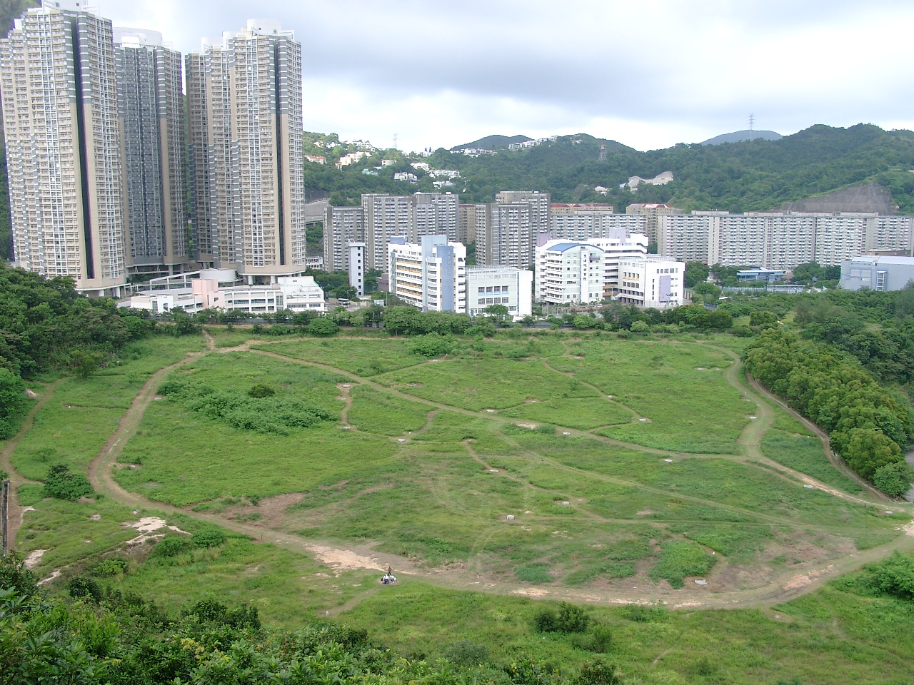 A photo taken about Sze Shun District in Hong Kong (Western part)